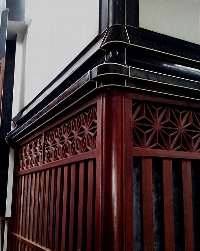 Decorations of the warehouse of the Yamakichi Fertilizer Store